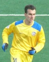 Branimir Petrović in action for FC Rostov